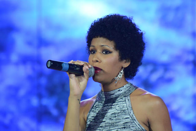 This is an image of Seychellois singer Angie Arnephy